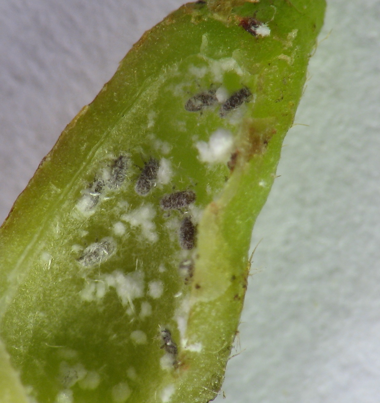 Cut open gall of Hormaphis hamamelidis (witch hazel cone gall aphid) on witch hazel, Hamamelis virginiana. Churchville Nature Center, Bucks County, Pennsylvania, USA.